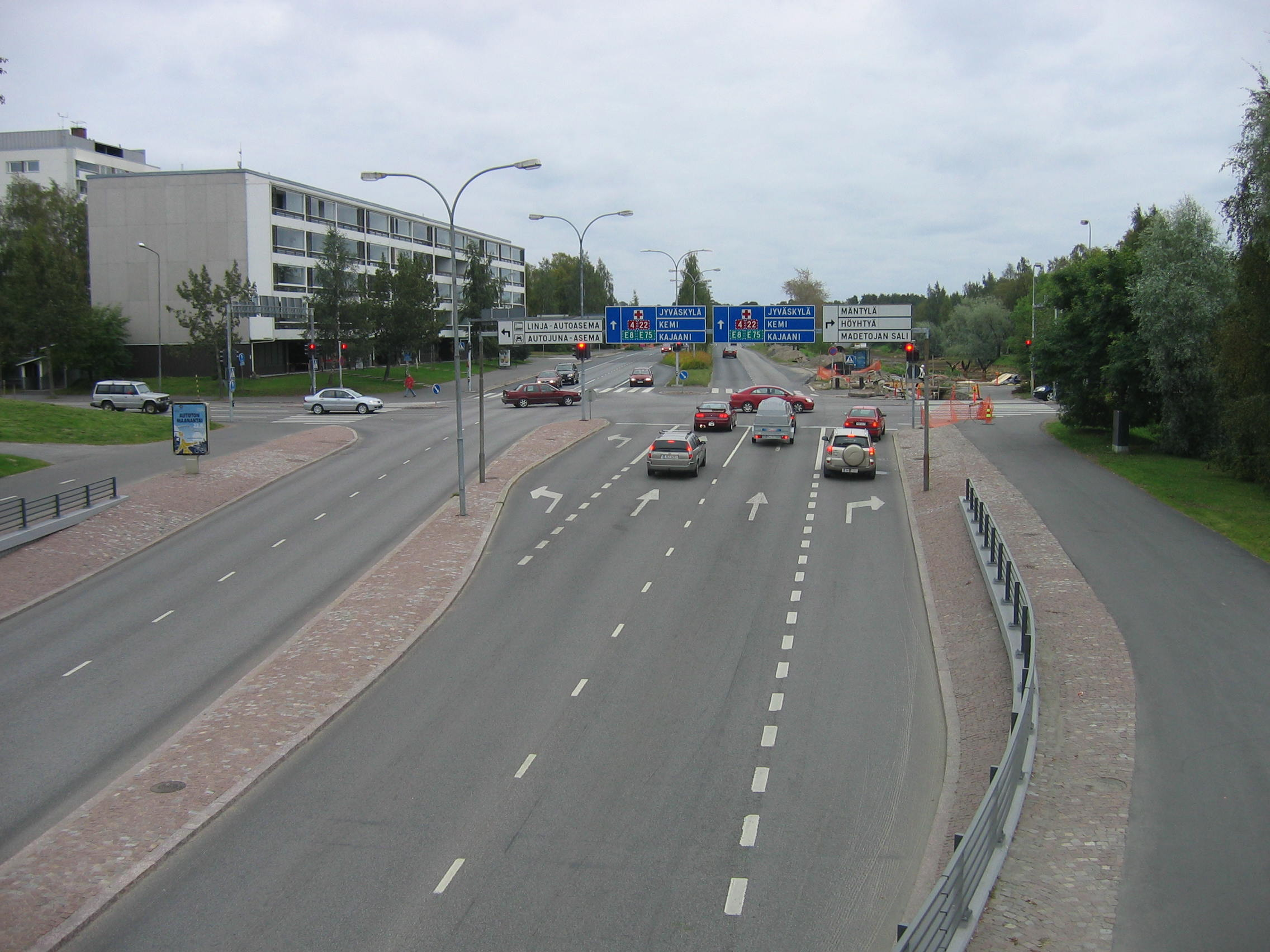 The street "Saaristonkatu" in the city of Oulu, Finland, towards the East and the beginning of the main road 22.